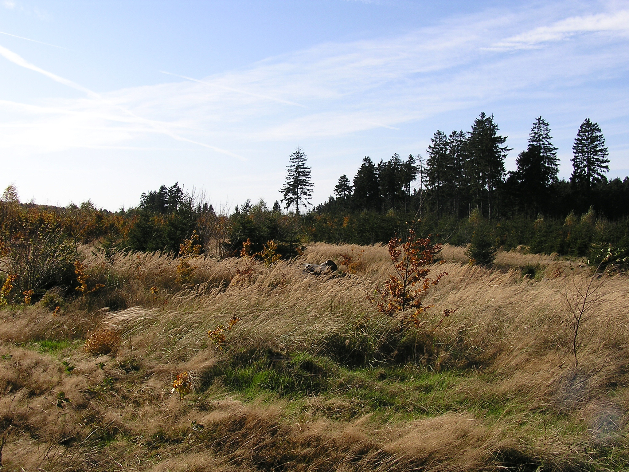 A highmoor in the Vogelsberg. The Nidda flows through it.